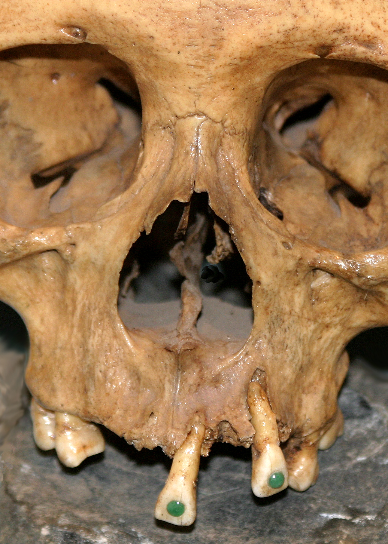 This is on display at the Jade Museum in Antigua, Guatemala. Today, some Mayans decorate their teeth with gold inlays, hundreds of years ago they seem to have used jade.